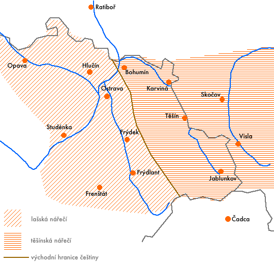 Borders range of Lach Silesian dialect and Cieszyn Silesian dialect